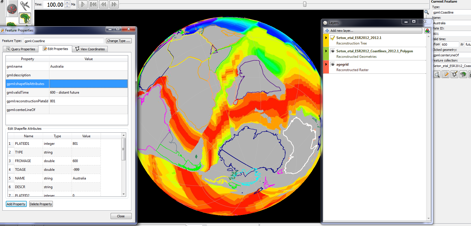 This is a screenshot made from a free open source software with free open source datasets.